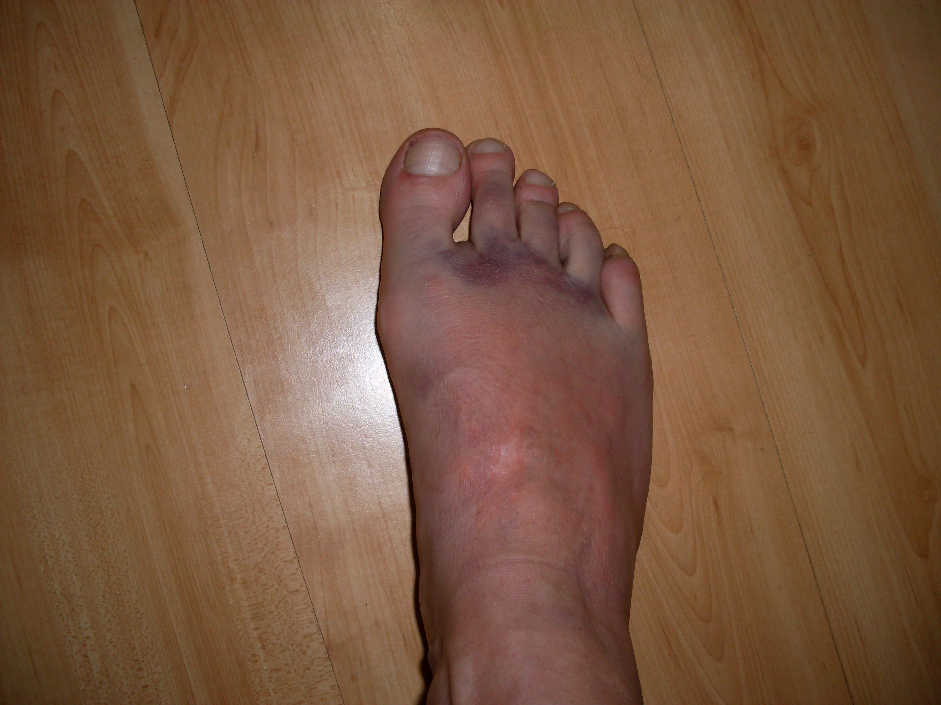 haematoma after fall, a few days later